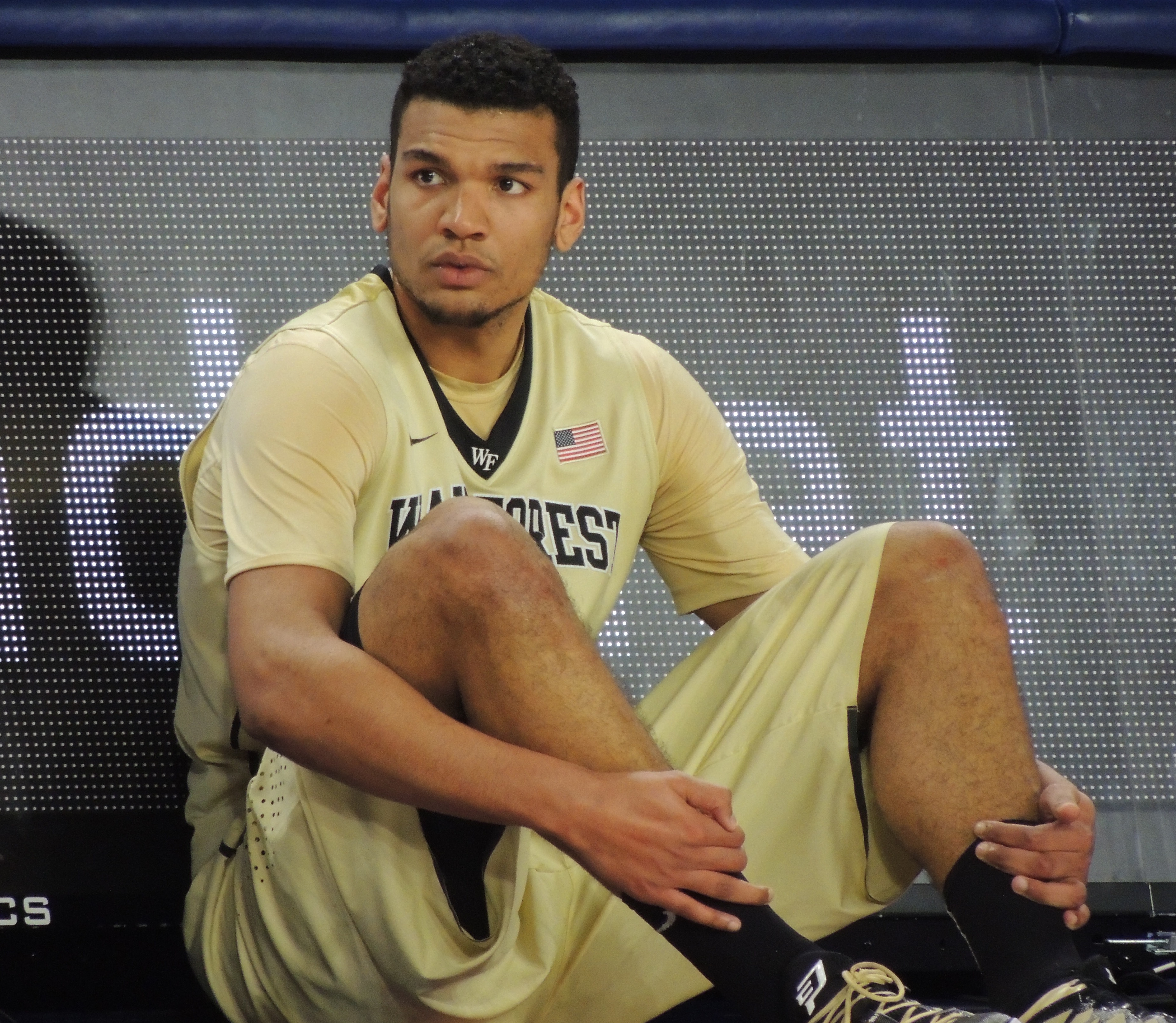 Wake Forest forward Devin Thomas waits to check into a game in December, 2014.